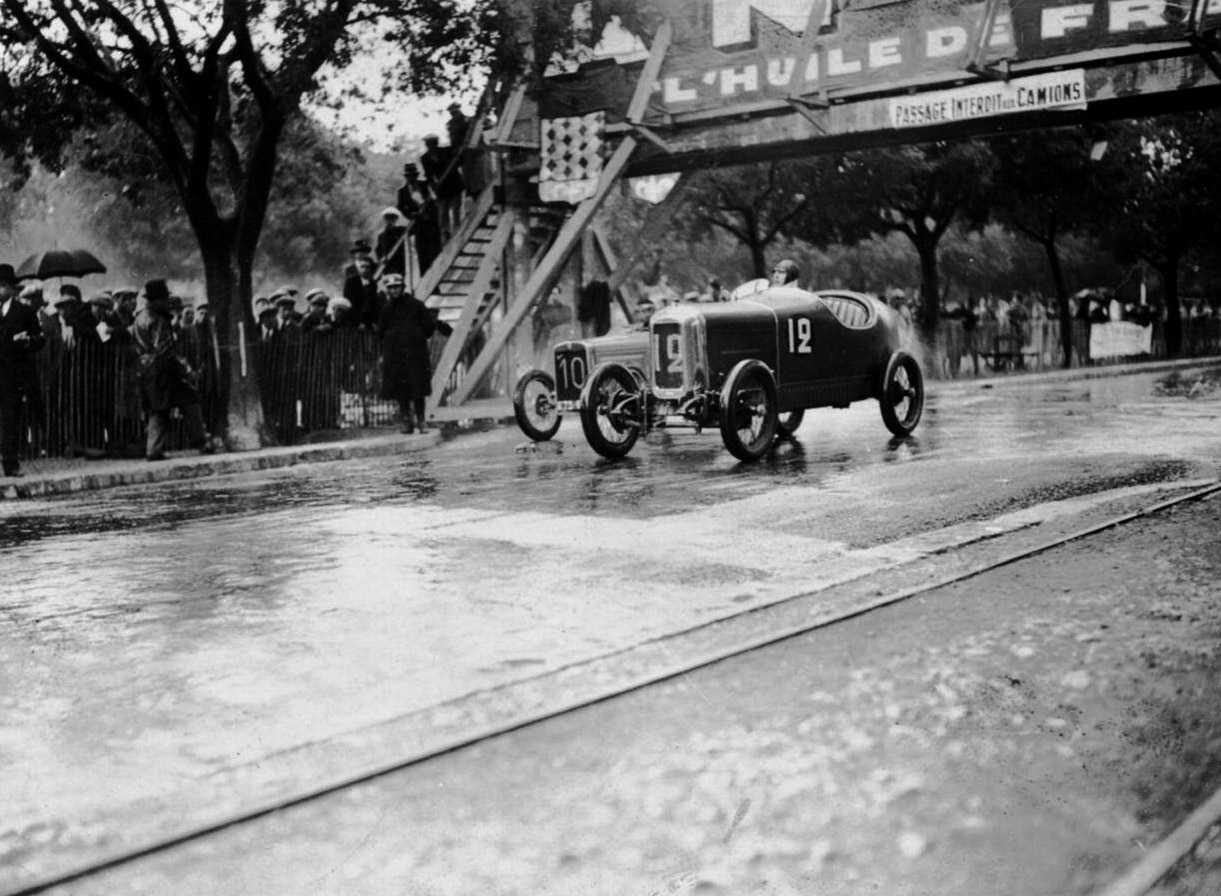 ORIGINAL DESCRIPTION: Start grid of Grand Prix of Nîmes. CORRECTION (of Nov 20, 2018): Entry #10 and #12 in the 1932 Grand Prix de Nîmes (May 16) were two Bugatti T35C[1], which these two cars in the picture are NOT. On the same day (May 16) there is the I Trophee de Provenance, where #10 is a Rosengart driven by Marcel de la Rochette, and #12 is a Salmson driven by Raymond Chambost. [2].